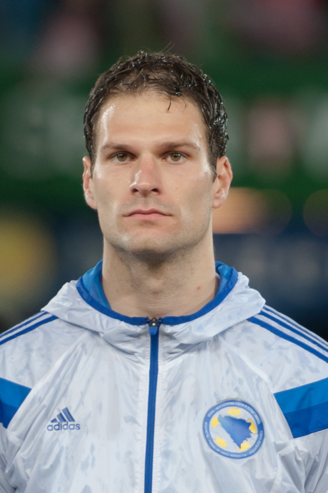 International friendly Austria vs. Bosnia and Herzegovina, 2015-03-31, Vienna